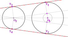 gh ty fg